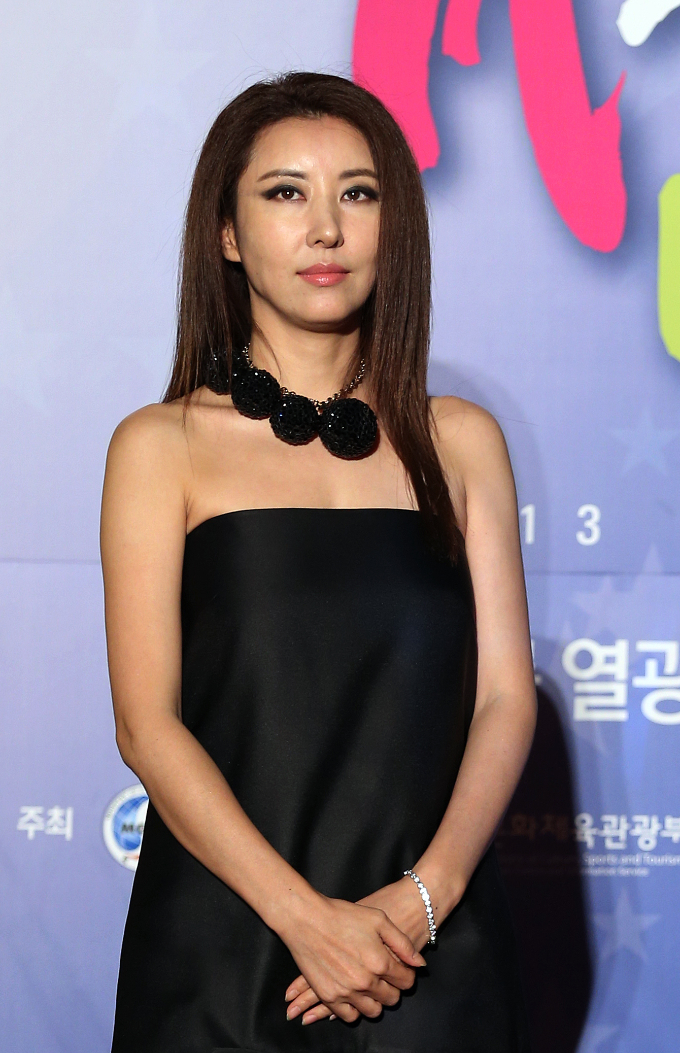 2013 K-POP World Festival in Changwon